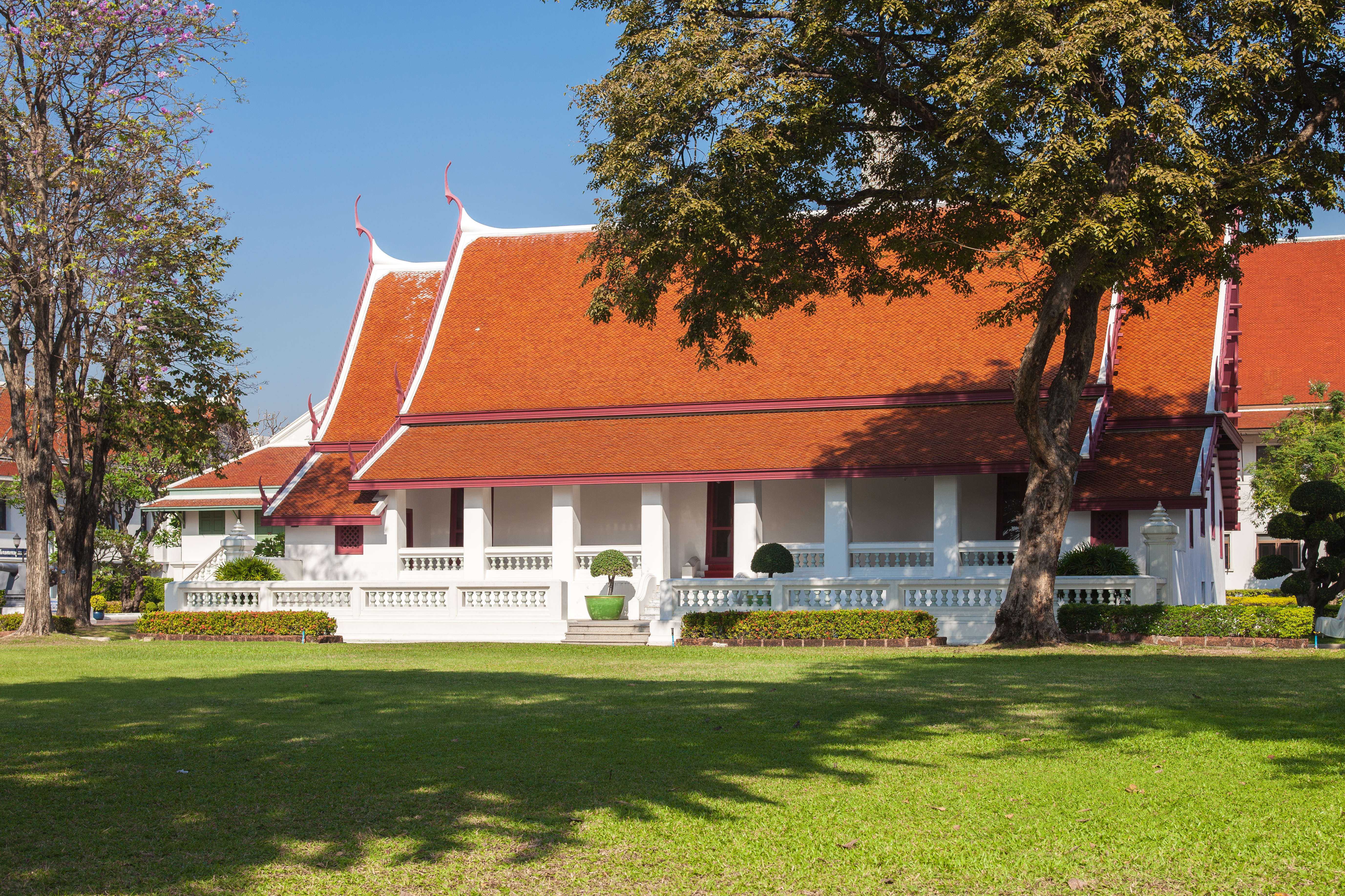 The throne hall at Phra Racha Wang Derm, Bangkok.